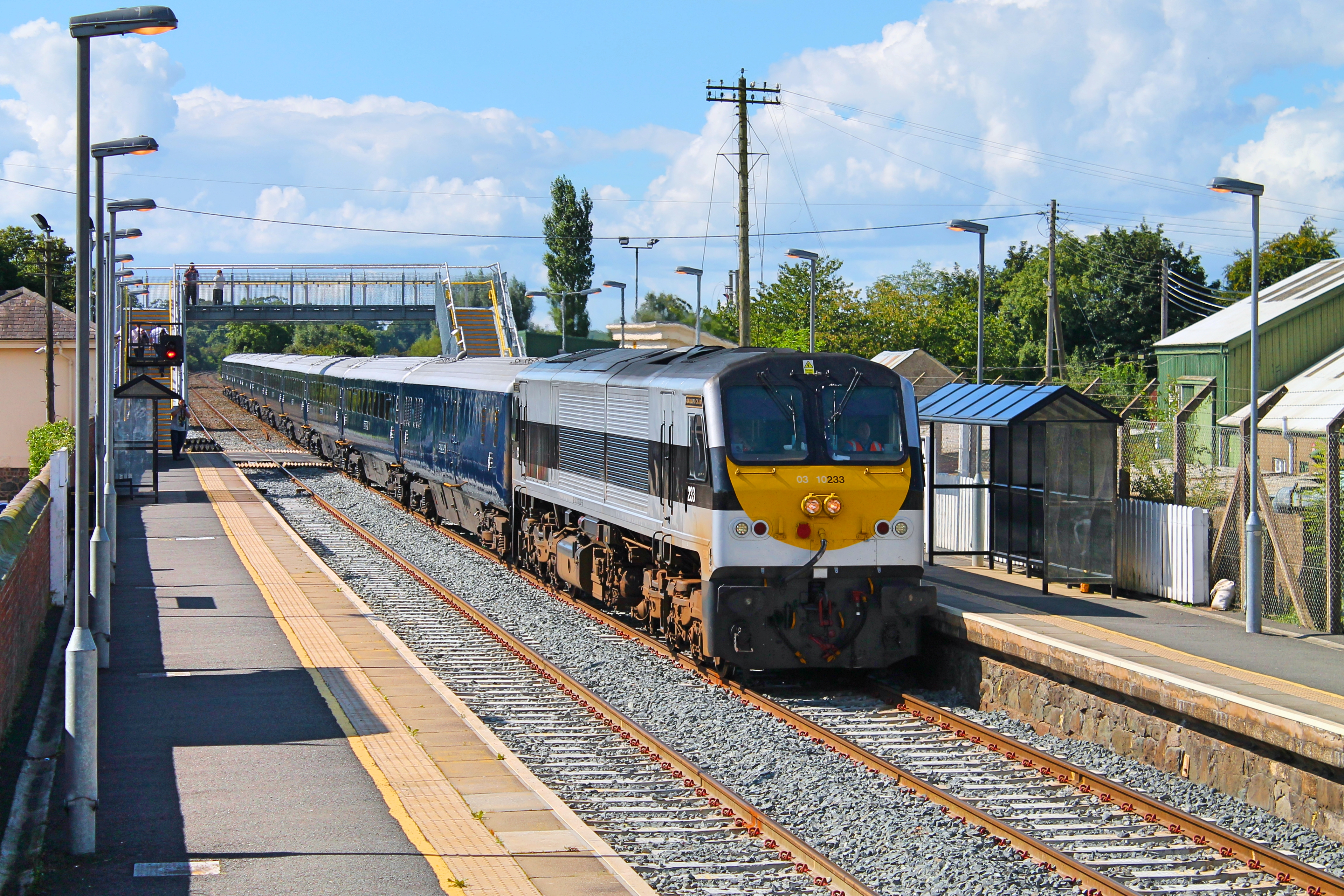 233 Passes Moira with the Belmond Grand Hibernian trial.